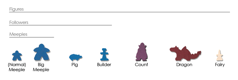 Classification of figures used in the board game Carcassonne